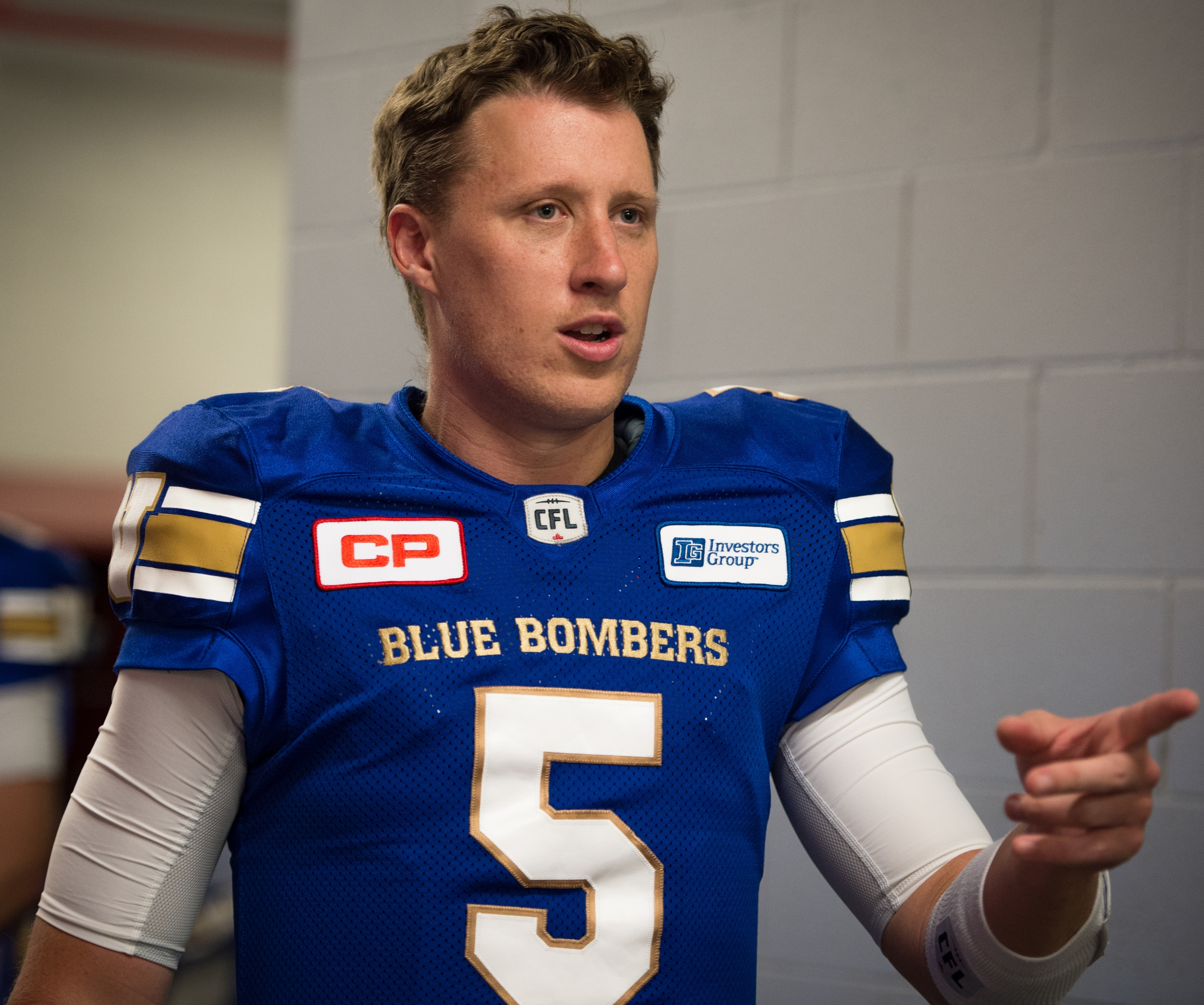 Drew Willy (5) of the Winnipeg Blue Bombers during the pre-season game at TD Place in Ottawa, ON on Monday June 13, 2016. (Photo: Johany Jutras)